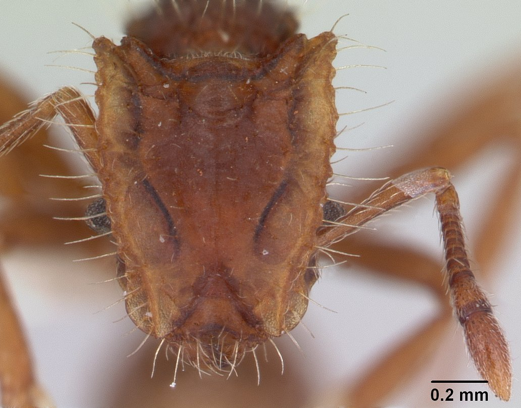 Head view of ant Blepharidatta conops specimen casent0178582.